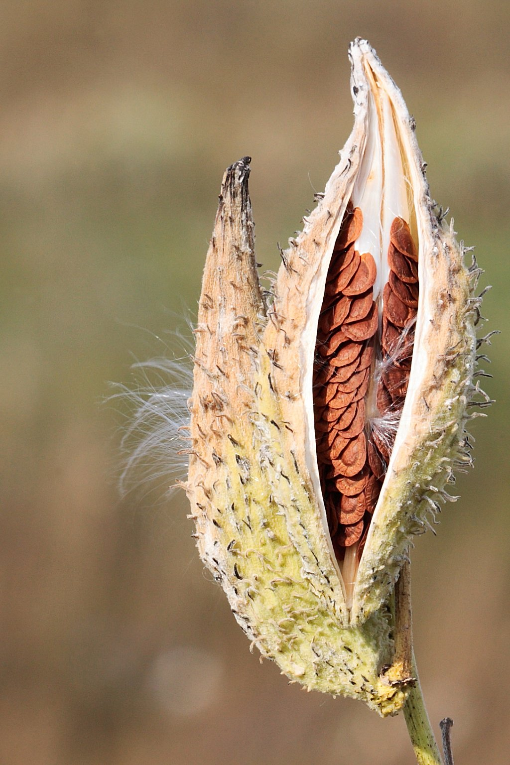 Asclepias syriaca (Common Milkweed), gone to seed -- Forks of the Credit Provincial Park, Ontario, Canada -- 2006 October